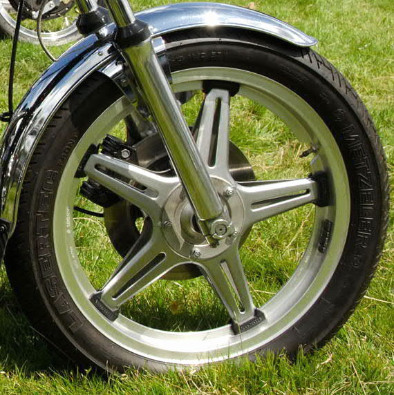 First generation Comstar wheel on a Honda CB400A Hawk Hondamatic (1978) at Capesthorne Hall Classic Car Show in 2014